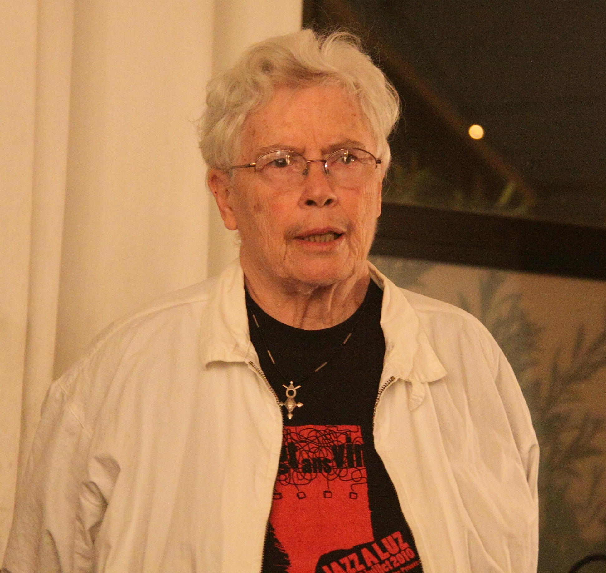 Photo of Pauline at a dinner/concert in Oakland